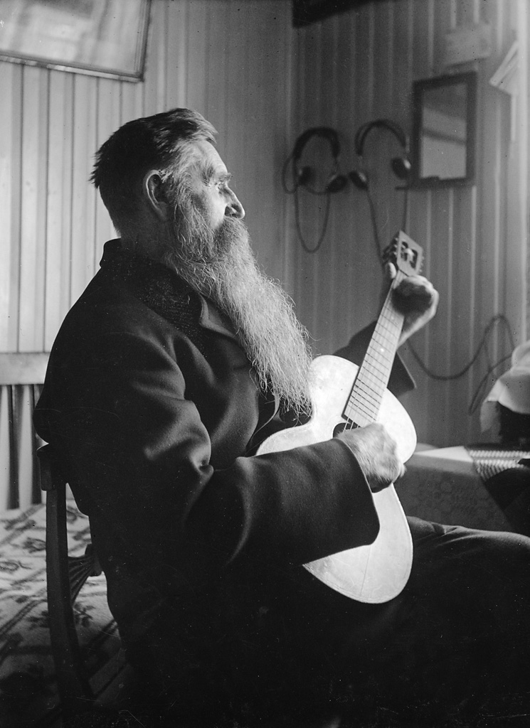 The Parish Constable August Ländin in Åkeshov, playing the guitar. Born in 1863. Fjärdingsmannen August Ländin i Åkeshov, som spelar gitarr. Född 1863. Parish (socken): Kårsta Province (landskap): Uppland Municipality (kommun): Vallentuna County (län): Stockholm Photograph by: Einar Erici Date: 1930s Format: Print Persistent URL: Read more about the photo database (in english)